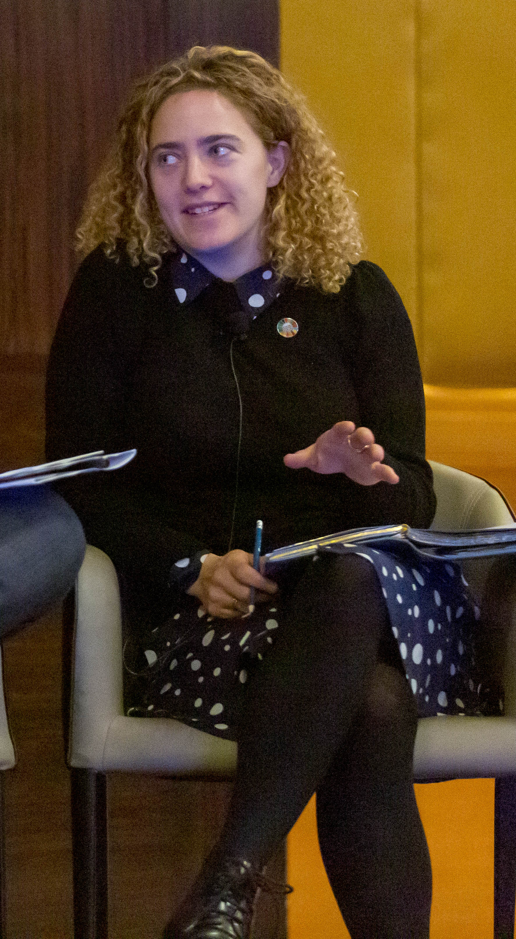 Emerging technology in the world and in government. Panel discussion chaired by Dr. Oliver Lewis, Deputy Director Learning and Development, DDaT Profession, GDS with Tabitha Goldstaub, Co-founder of CognitionX, Chair of the UK Government's Artificial Intelligence Council and Dr. Ivan Palomares Carrascosa, Lecturer in Data Science and Artificial Intelligence, University of Bristol, Turing Fellow, Alan Turing Institute.